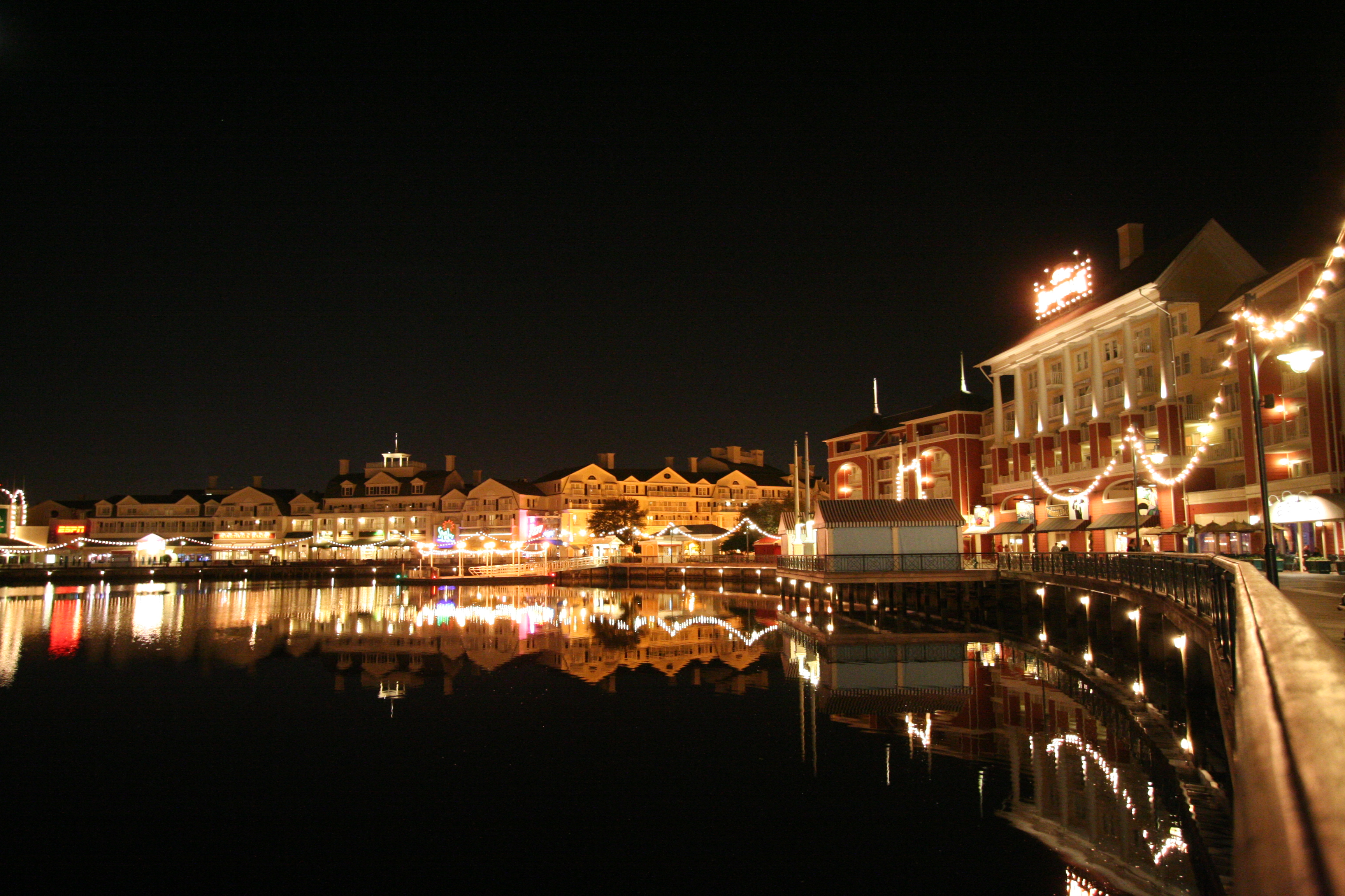 Jellyrolls Dueling Piano Bar at Walt Disney World in Orlando Florida, part of Disney's Boardwalk Resort